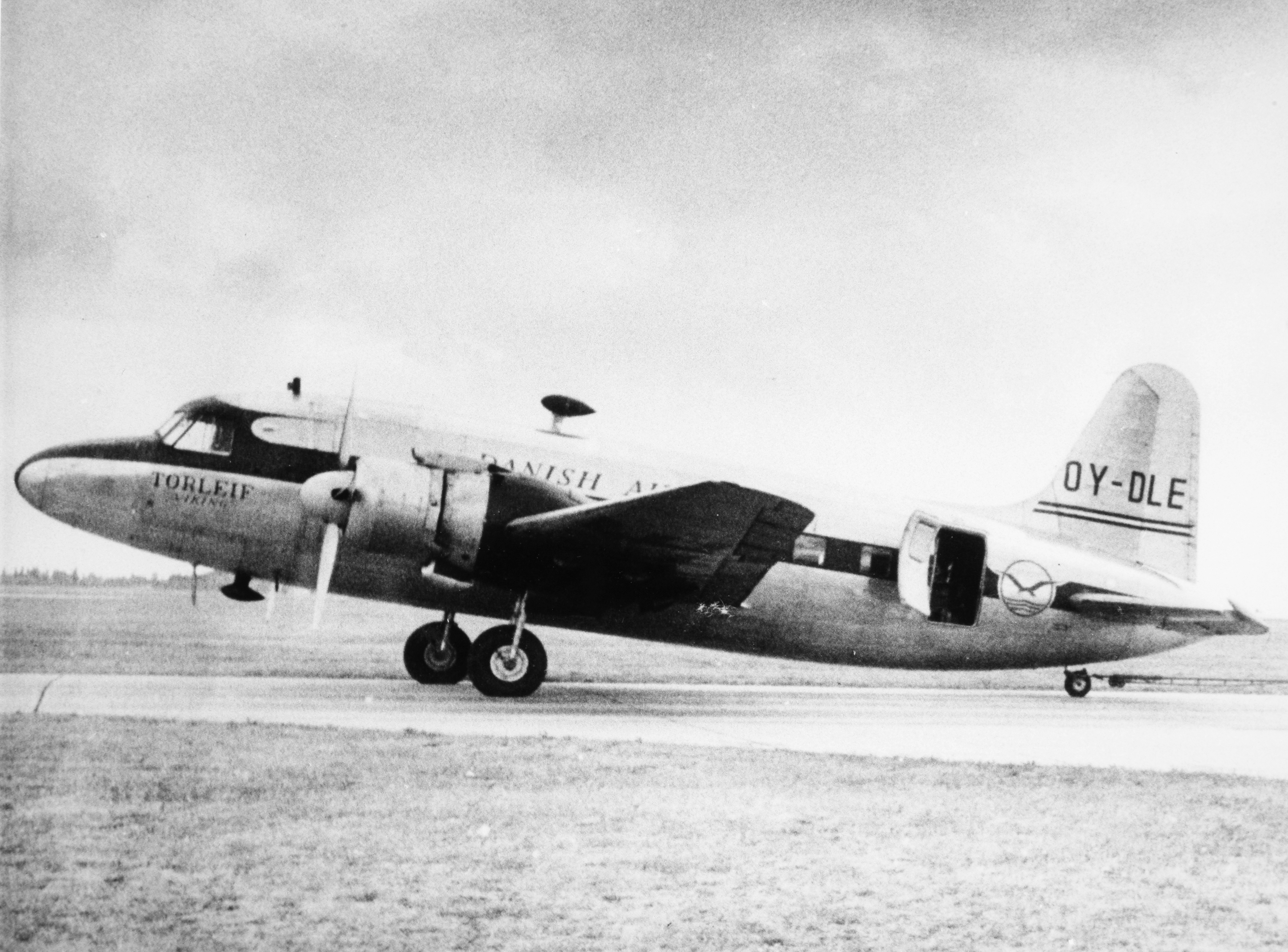 DDL Vickers Viking, "Torleif Viking" OY-DLE, on the ground, at the airport. 1940s